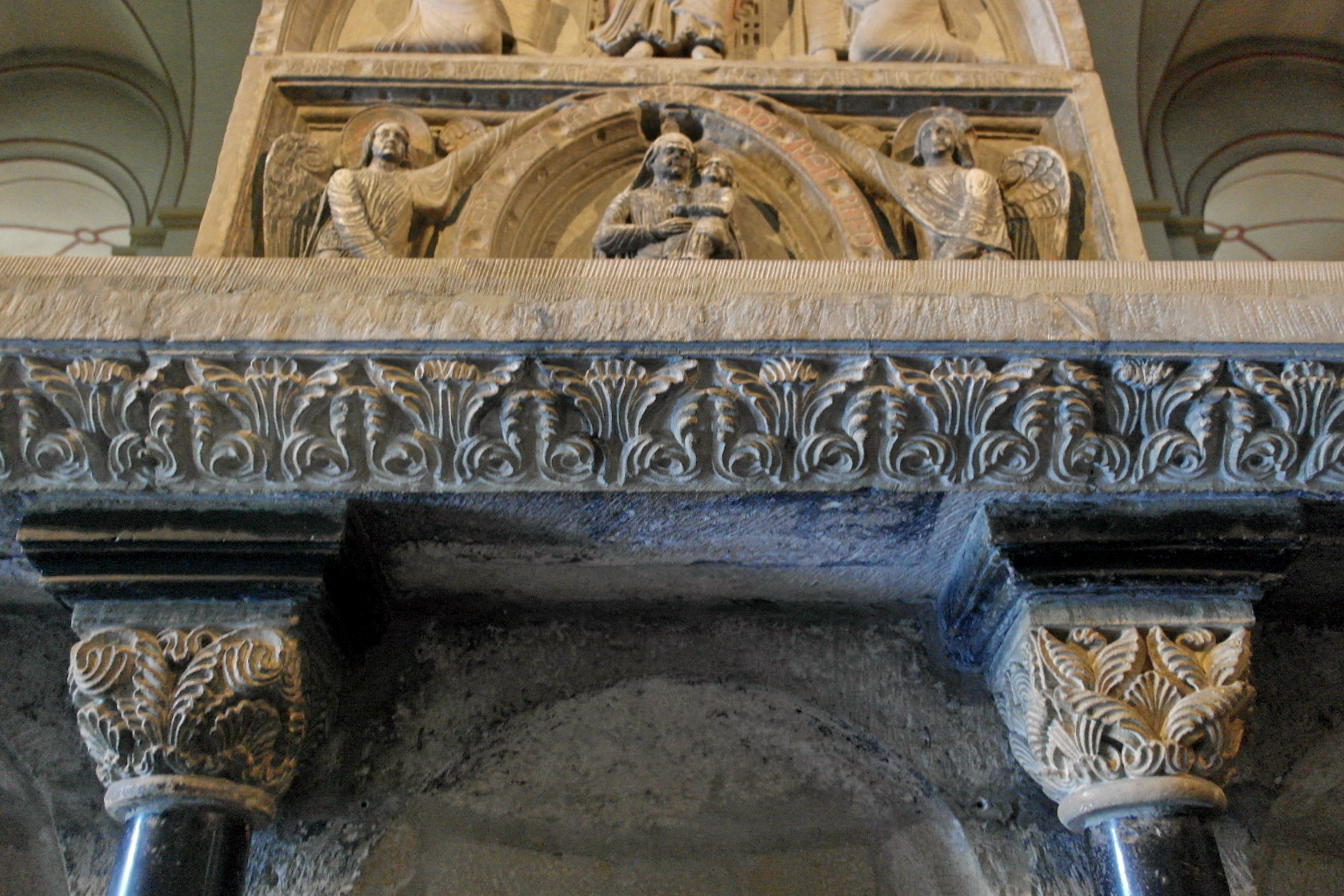 Detail of the Romanesque Westwork altar in the Basilica of Saint Servatius in Maastricht, the Netherlands.